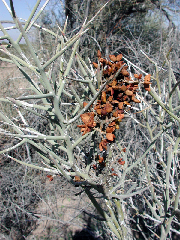 Castela emoryi, Crucifixion Thorn, sw of Arlington, Maricopa County, Arizona, USA. Close up of fruit cluster.